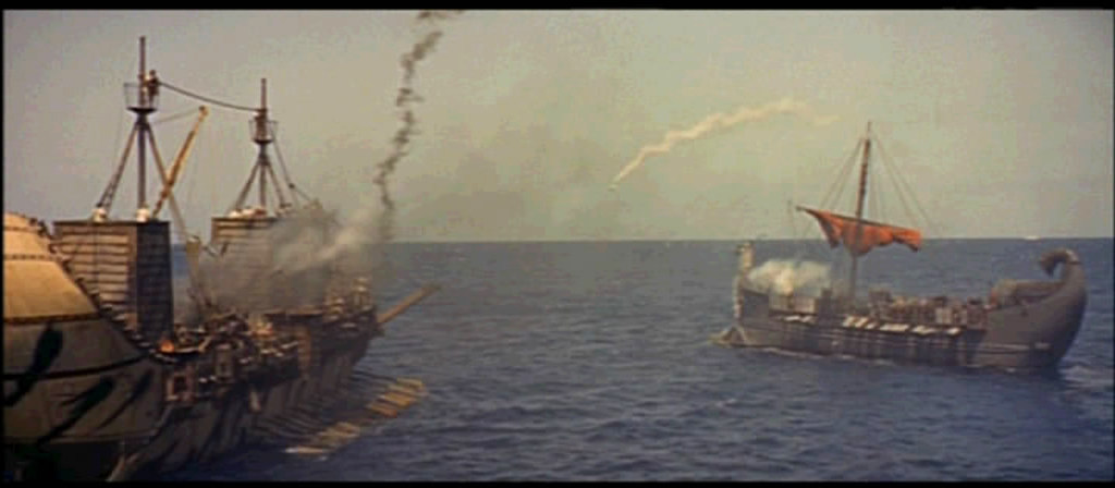 Screenshot from the trailer for the film Cleopatra.